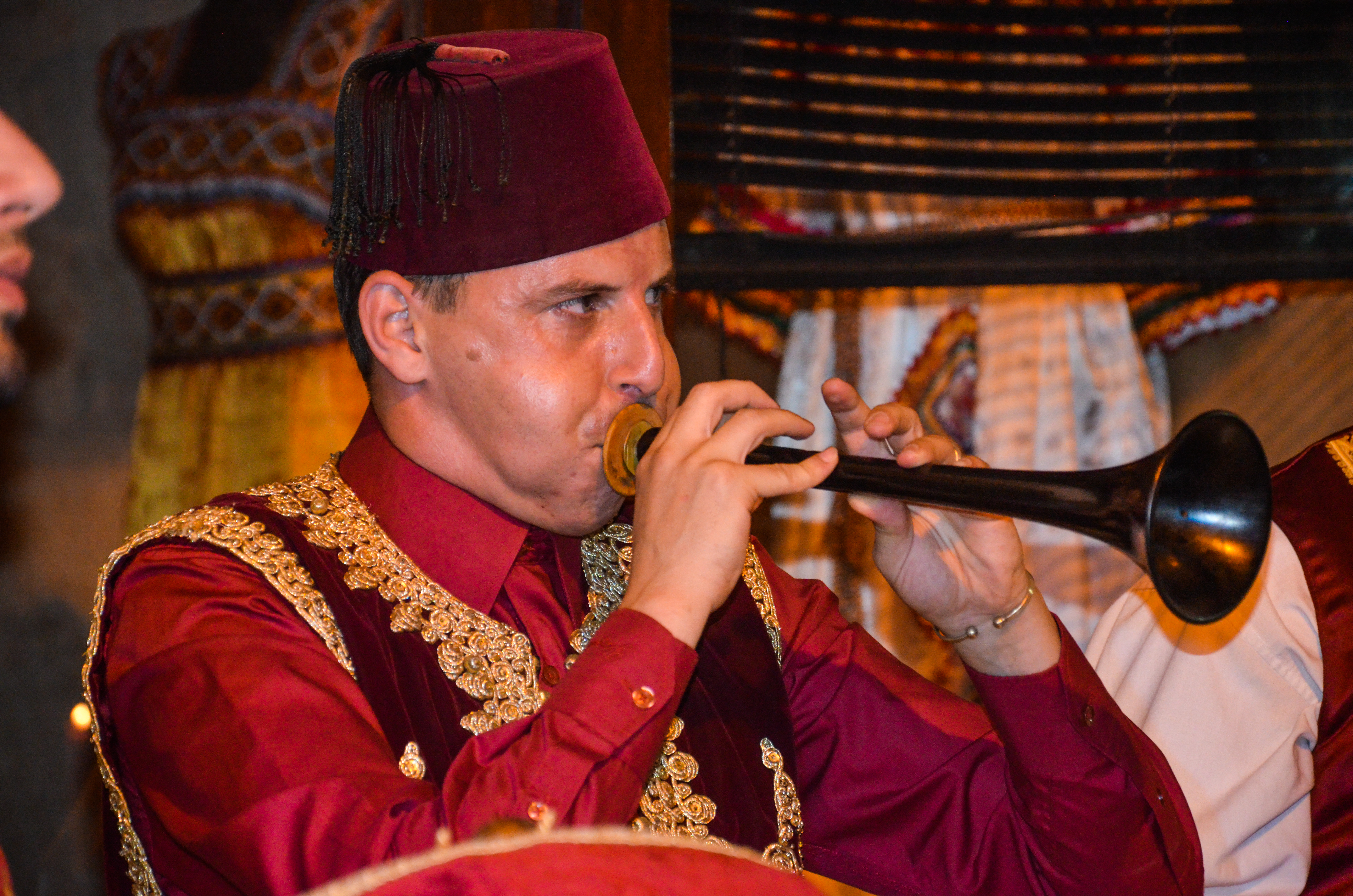 A member of the troupe Boutka plays at the Zorna This is an image from Algeria